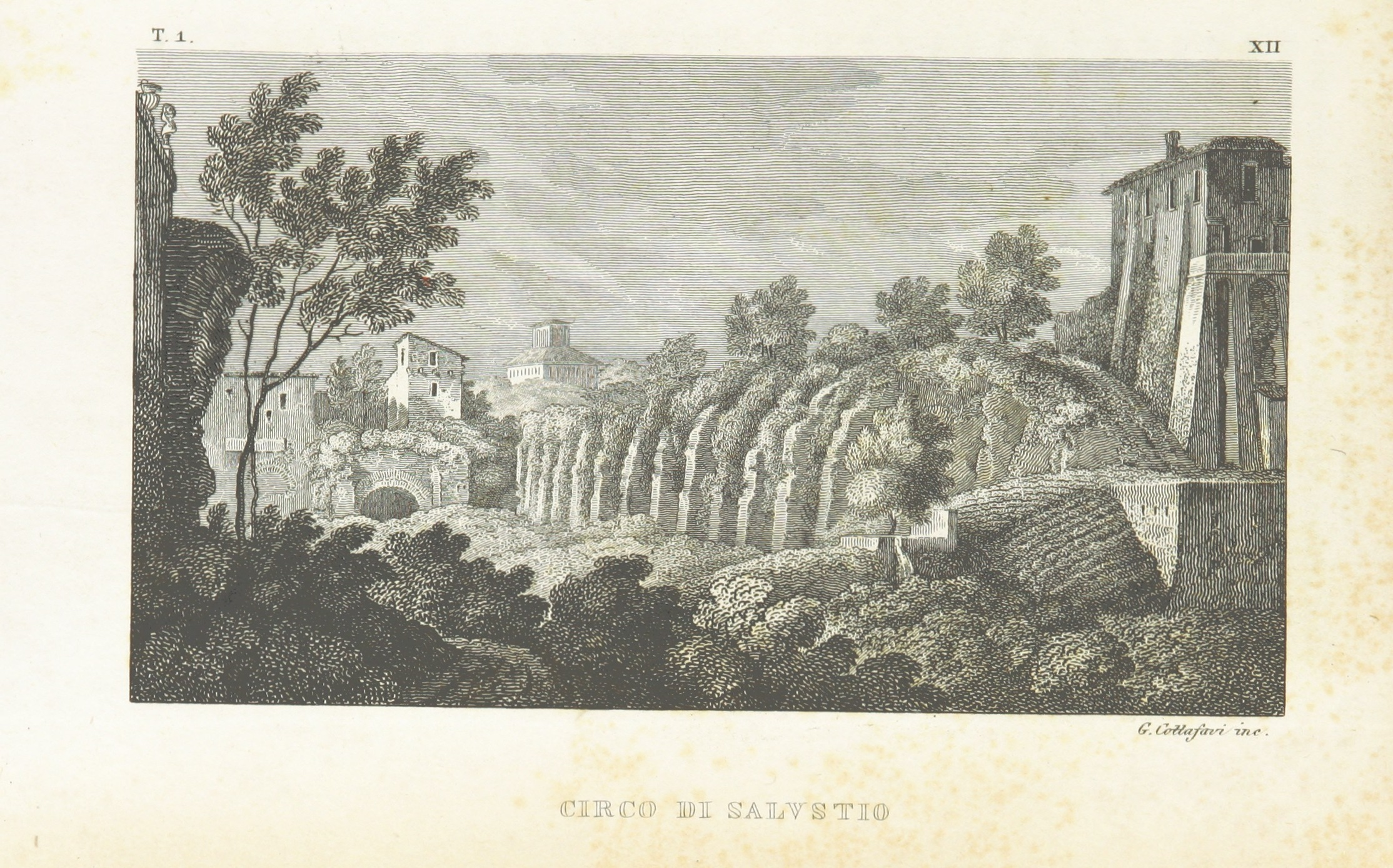 Title: "Rome, ancient and modern, and its environs" Author: DONOVAN, Jeremiah - D.D., of Maynooth College Shelfmark: "British Library HMNTS 10130.dd.15." Volume: 04 Page: 493 Place of Publishing: Rome Date of Publishing: 1842 Issuance: monographic Identifier: 000967162 Image rotate by Mac9